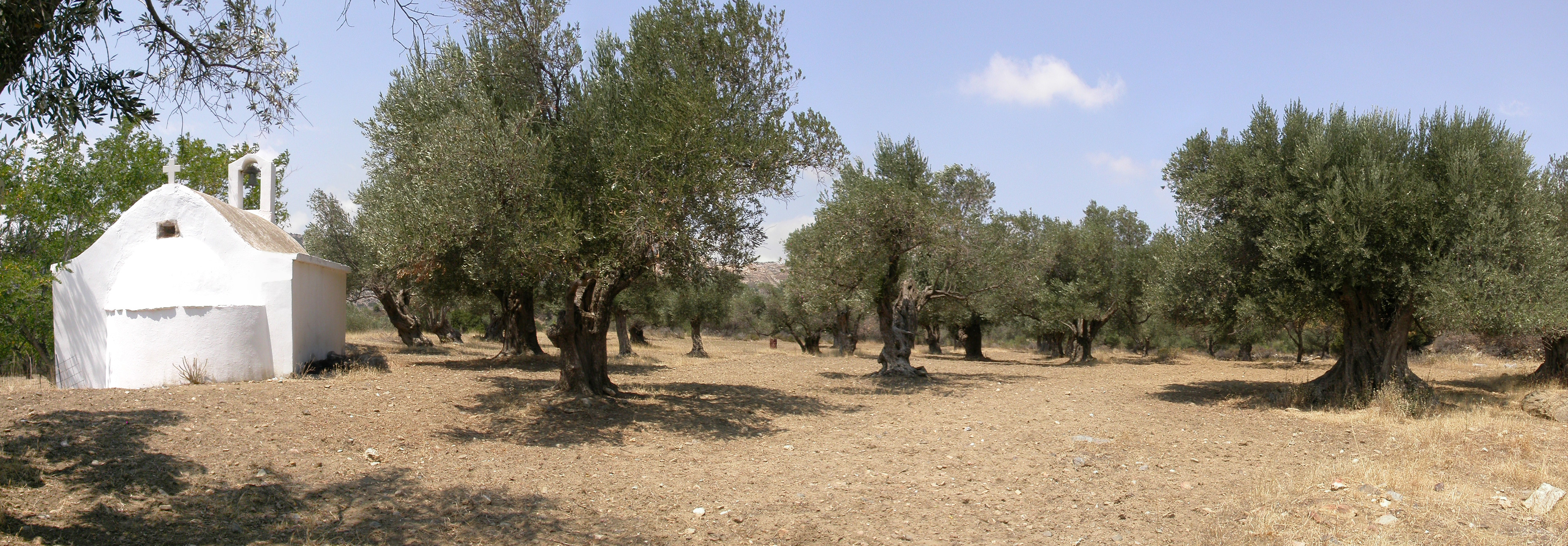 Pano Kaloxilos Naxos Cyclades Greece